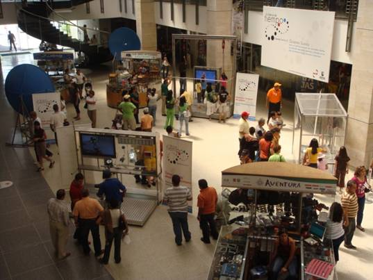 Panoramic view in the Barquisimeto Museum, Barquisimeto, Venezuela.